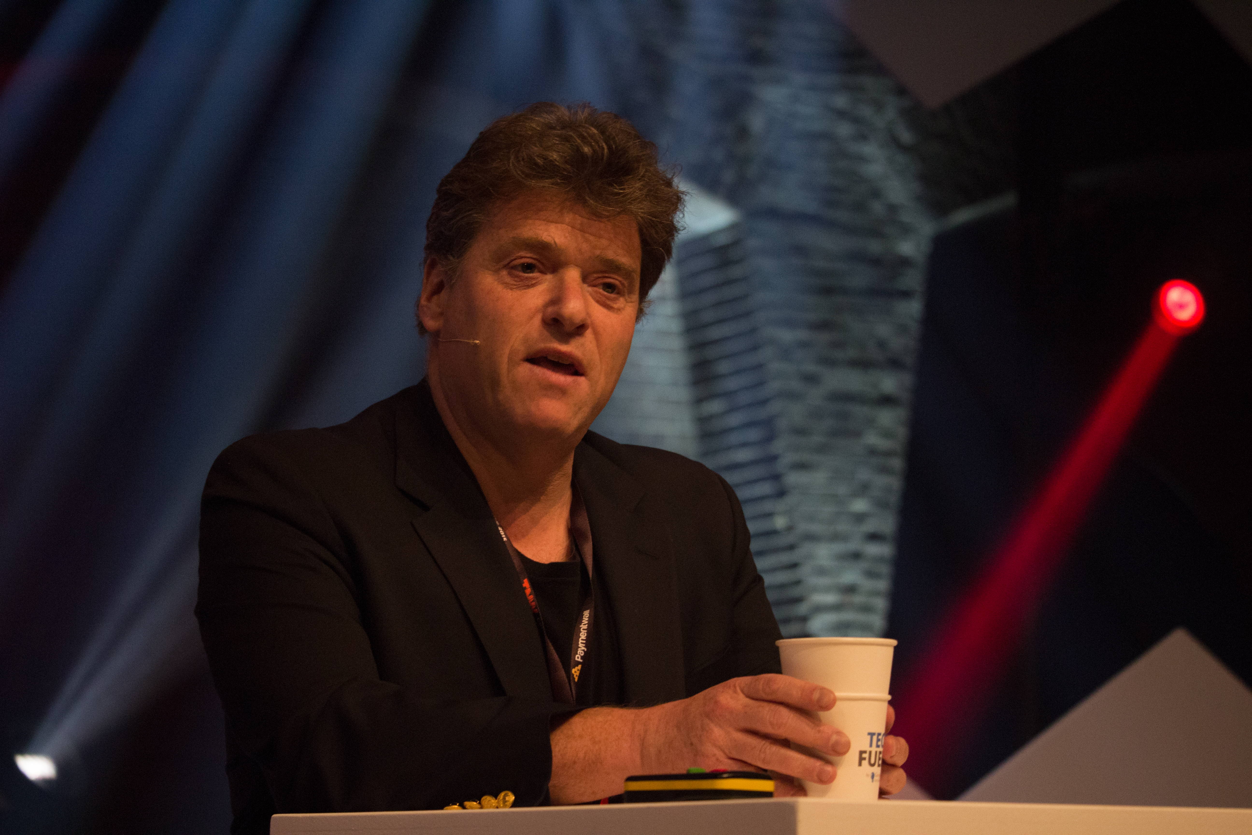 Andrew Keen speaking at TNW conference